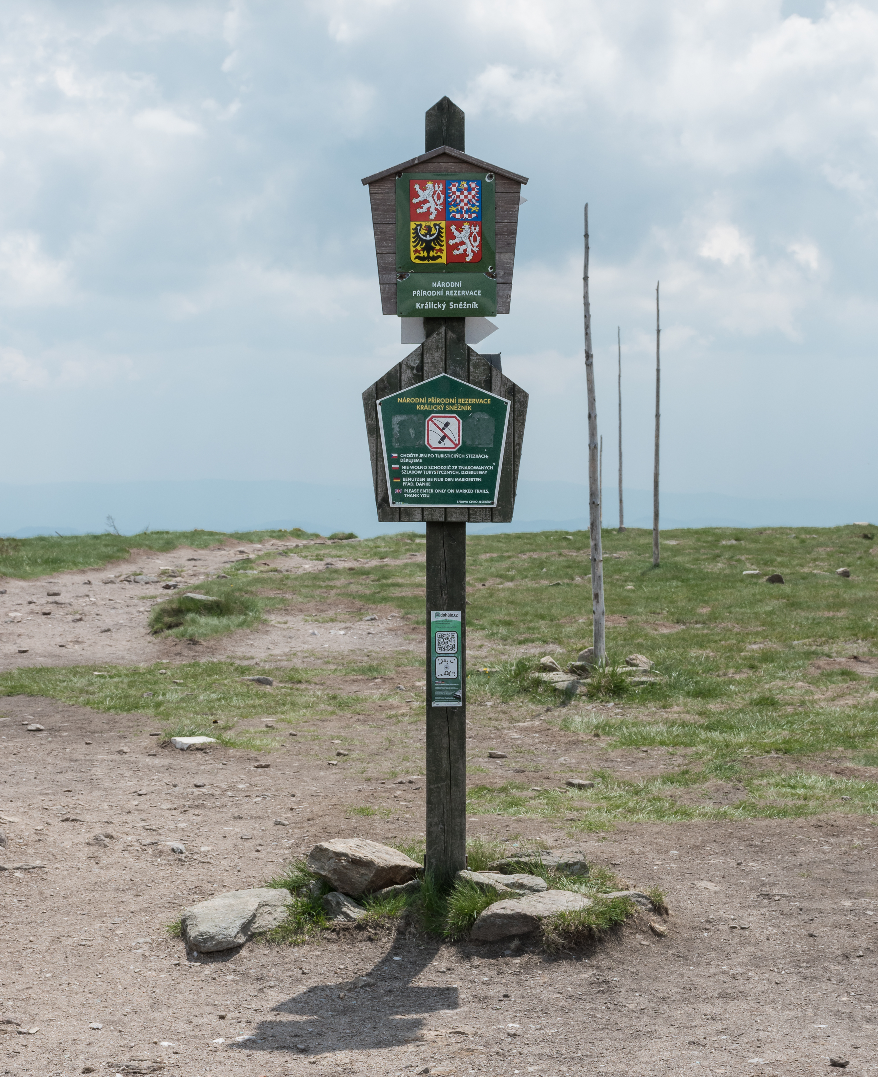 Top of Śnieżnik